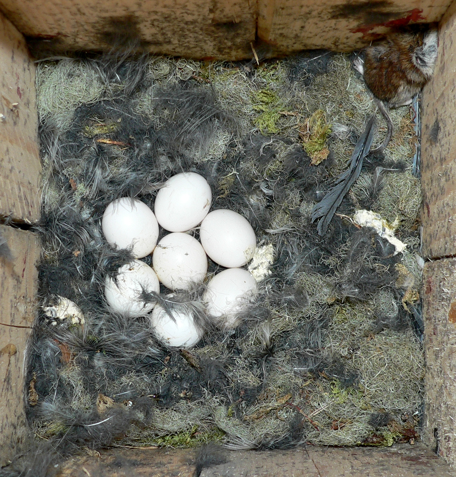 Tengmalms owl (Aegolius funereus), nest with eggs and food store. Picture taken in the Etelä-Pohjanmaa region (Finland), close to Kauhava.